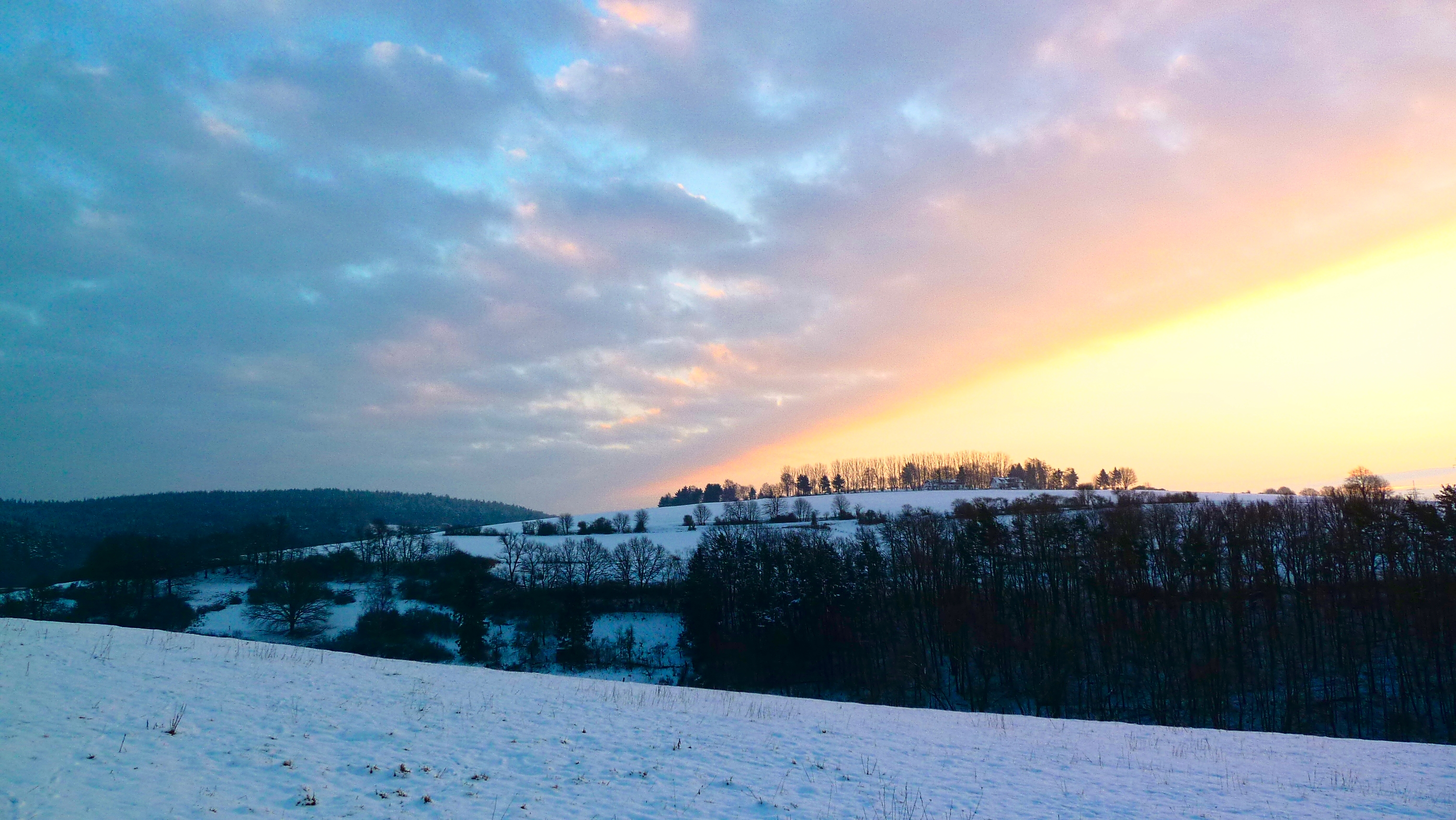 Sunrise near Heenes, Germany, during the winter